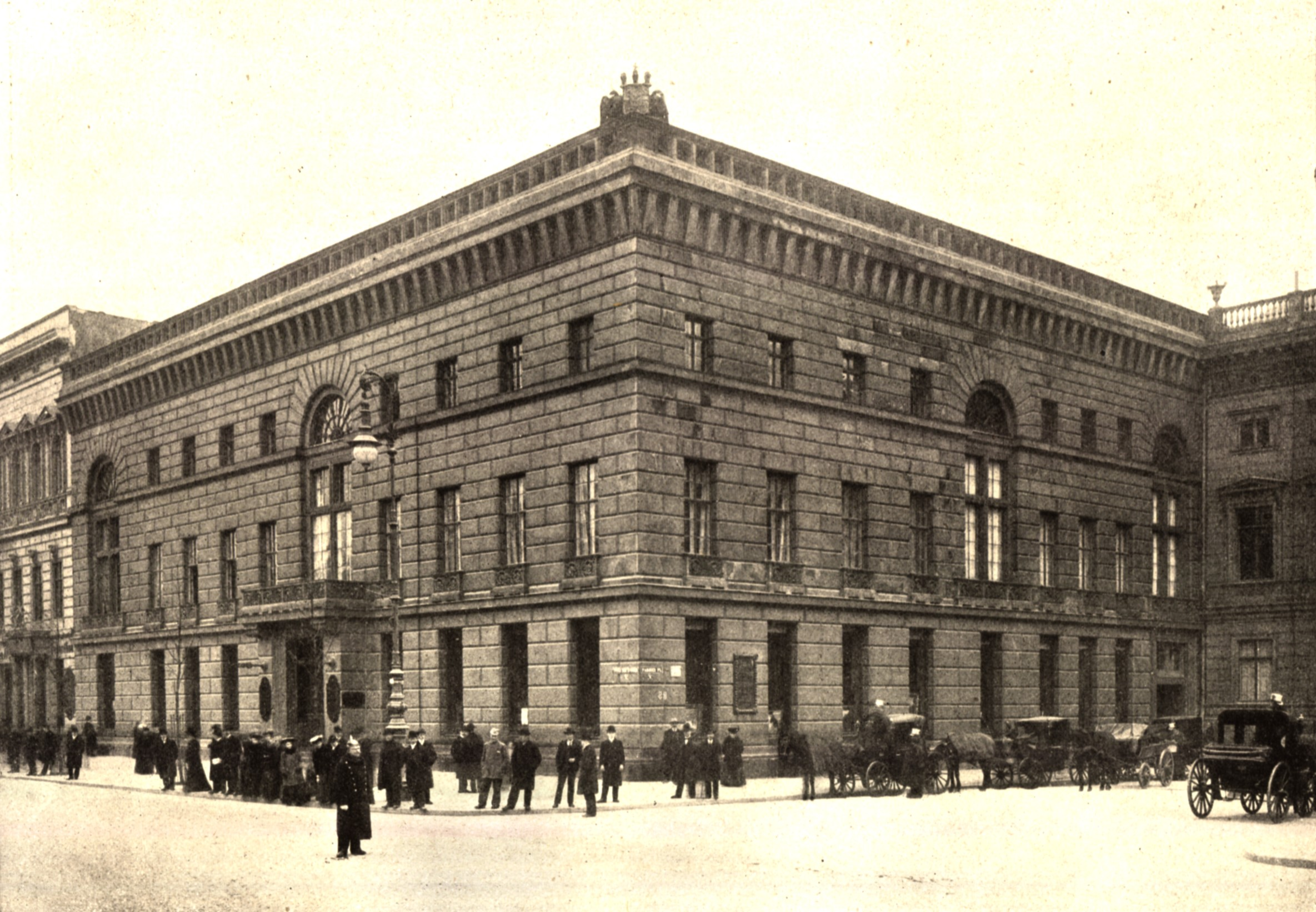 Berlin, Palais Redern, view from Pariser Platz